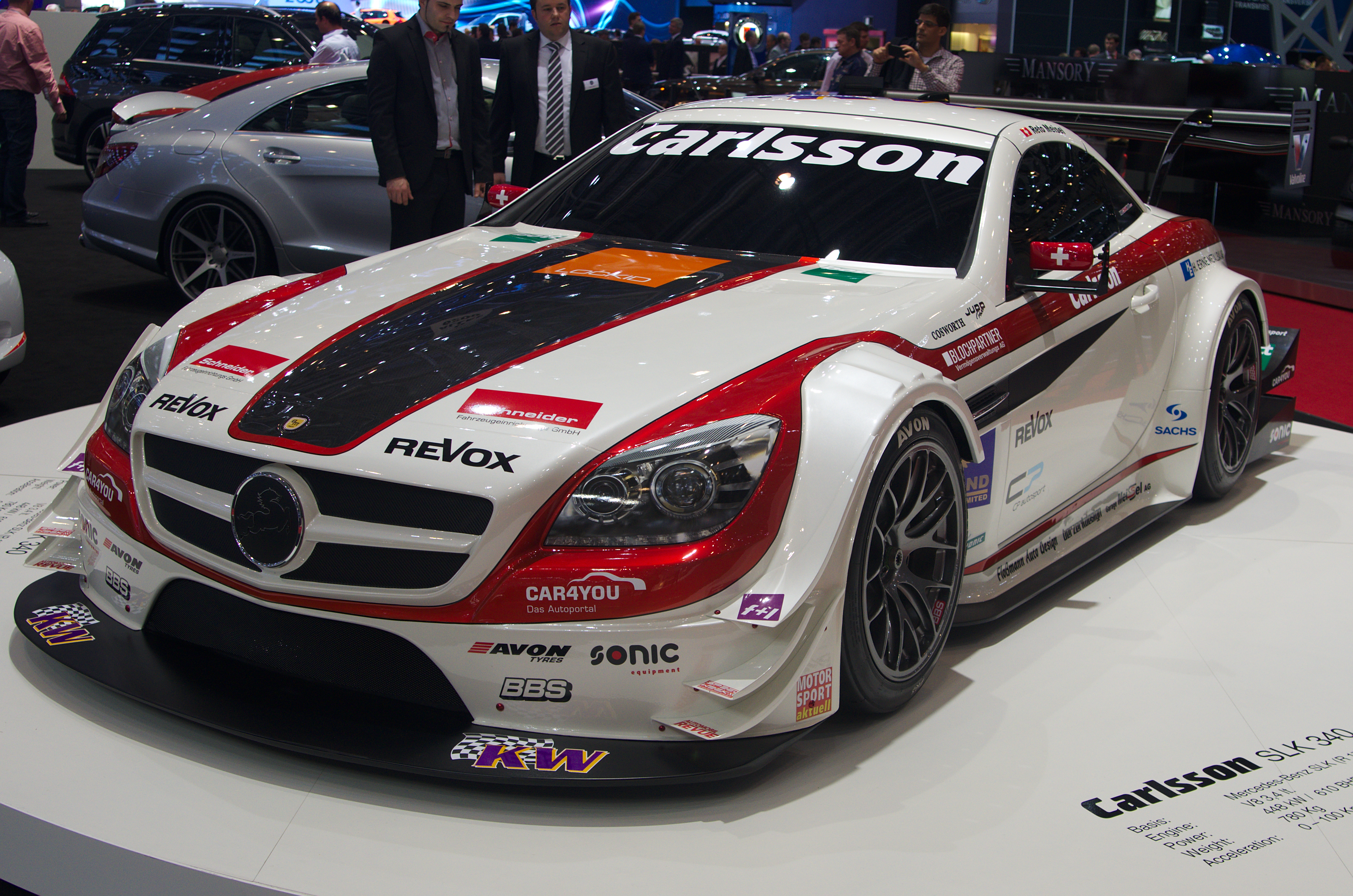 Geneva MotorShow 2013 - Carlsson SLK 340 front view